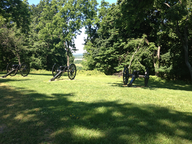 Cannon from the American Civil War on Bolivar Heights in West Virginia.